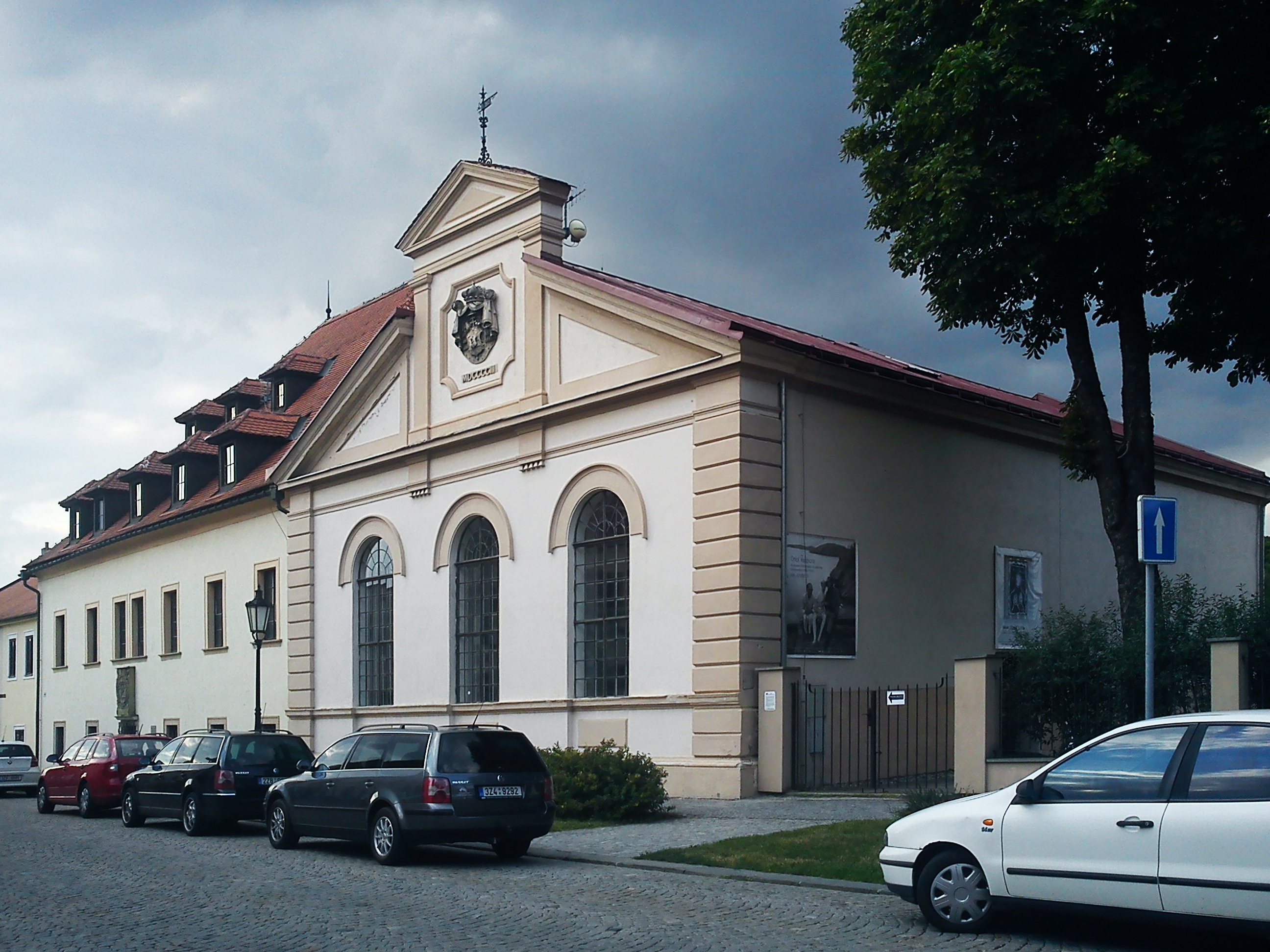 Former mint (left) and the Orlovna (former gym, now a gallery of the same name) in the town of Kroměříž, Zlín Region, Czech Republic.